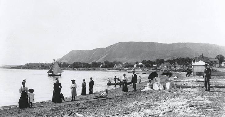 Photograph, Carleton, Baie des Chaleurs, Gaspé, QC, about 1897, Anonymous, Silver salts on paper - Gelatin silver process - 11 x 19 cm